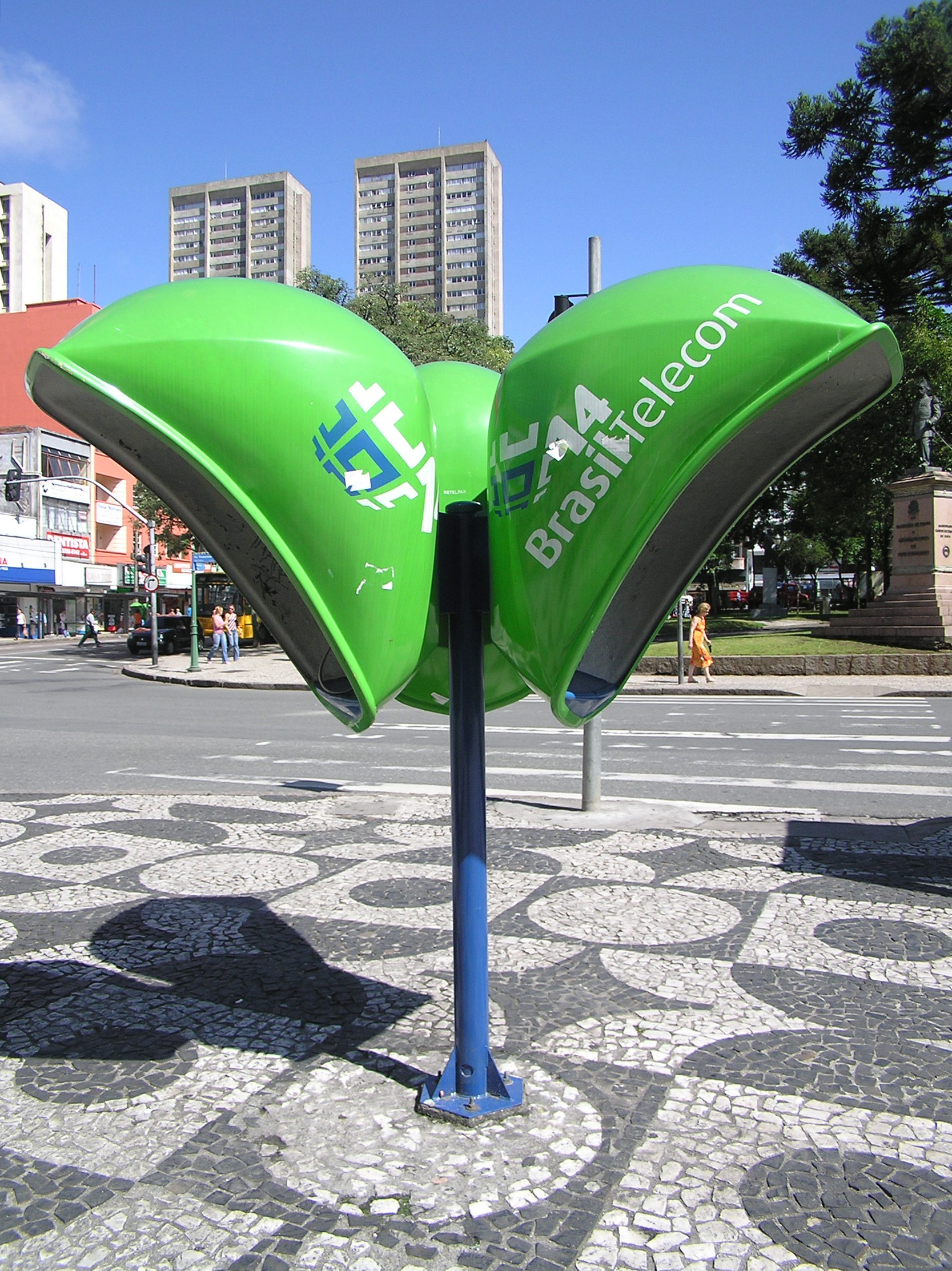 Telephone booth in Curitiba